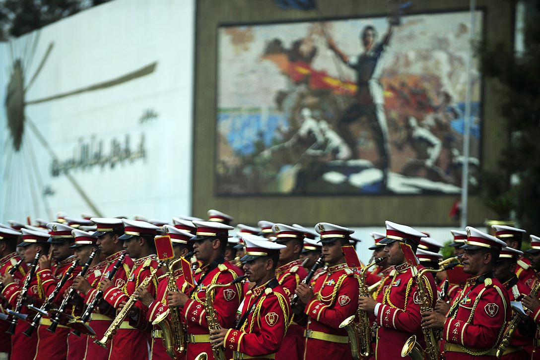 An Egyptian military band plays the U.S. national anthem as U.S. Defense Secretary Leon E. Panetta arrives to participate in a wreath-laying ceremony with Egyptian Maj. Gen. Rouini at the Tomb of the Unknown Soldier and President Anwar Sadat's memorial in Cairo,Oct. 4, 2011